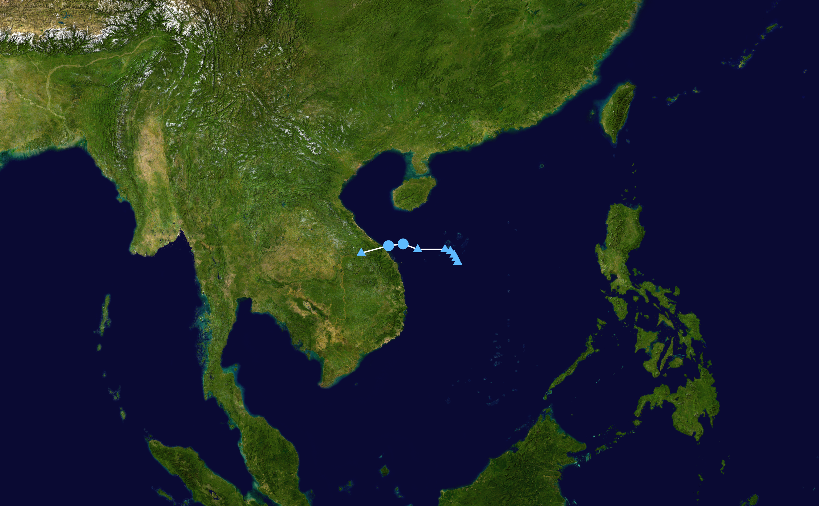 Track map of Tropical Depression 18W of the 2013 Pacific typhoon season. The points show the location of the storm at 6-hour intervals. The colour represents the storm's maximum sustained wind speeds as classified in the Saffir–Simpson scale (see below), and the shape of the data points represent the nature of the storm, according to the legend below. Saffir–Simpson scale Tropical depression≤38 mph≤62 km/h Category 3111–129 mph178–208 km/h Tropical storm39–73 mph63–118 km/h Category 4130–156 mph209–251 km/h Category 174–95 mph119–153 km/h Category 5≥157 mph≥252 km/h Category 296–110 mph154–177 km/h Unknown Storm type Tropical cyclone Subtropical cyclone Extratropical cyclone / Remnant low / Tropical disturbance / Monsoon depression